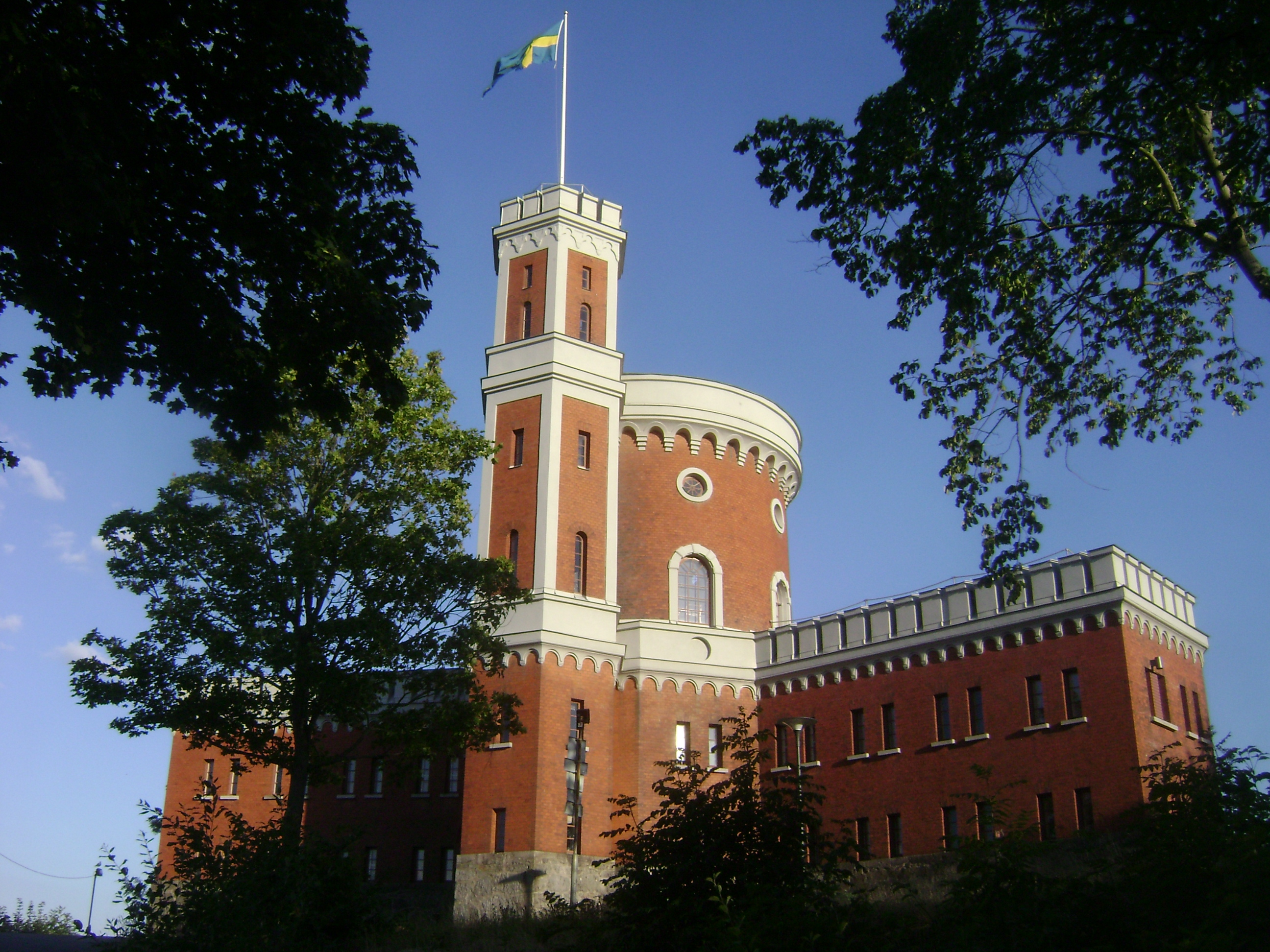 Sweden. Stockholm. Kastellholmen